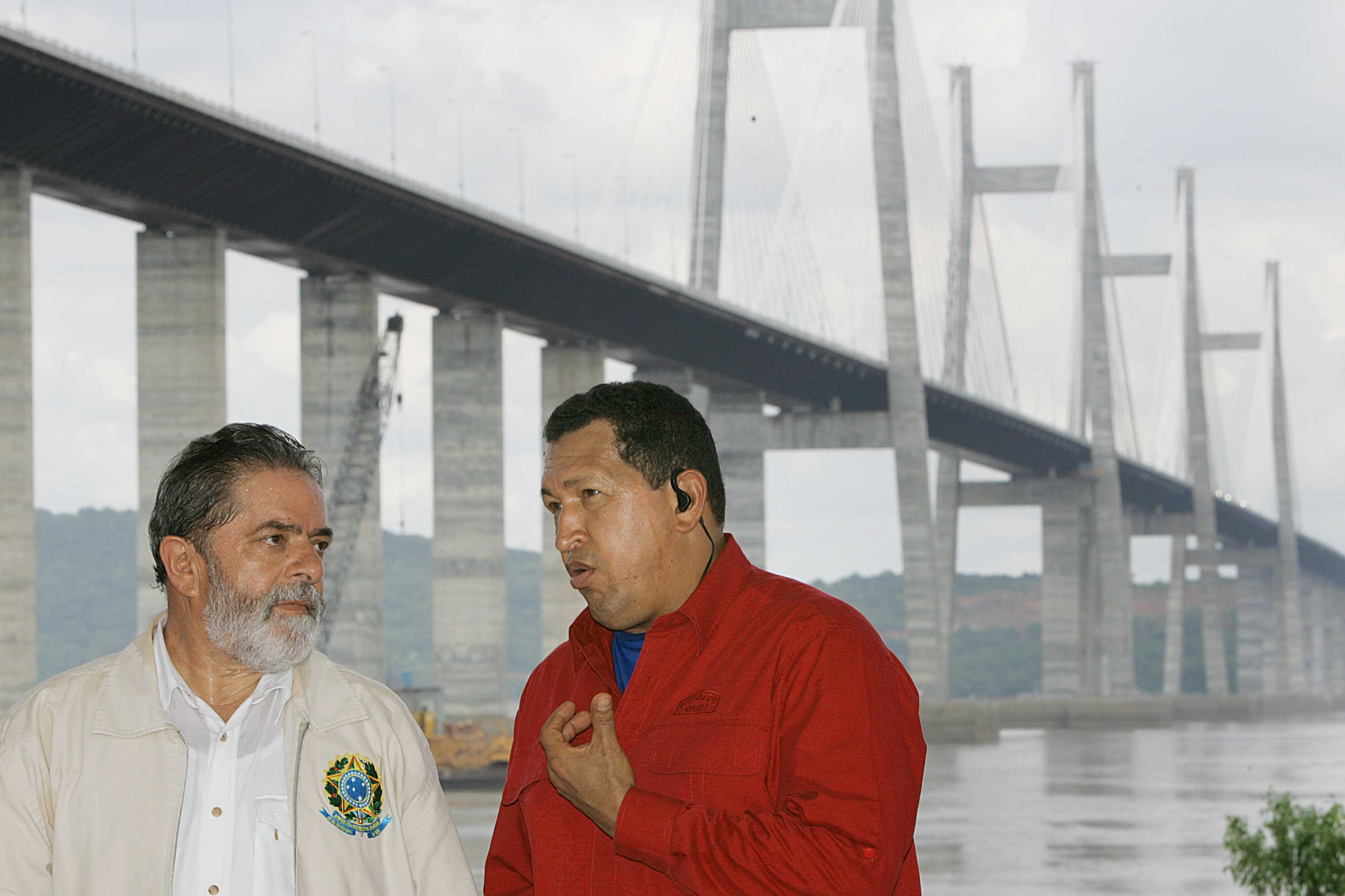 Guayana, Venezuela – The Brazilian president, Luiz Inácio Lula da Silva and his Venezuelan counterpart, Hugo Chávez, inaugurate the second bridge over the Orinoco river.